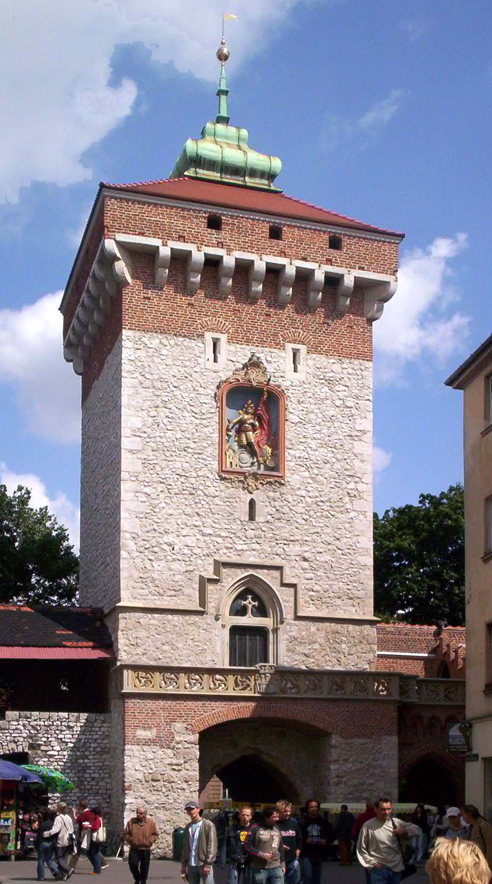 Brama Floriańska / Gate of St. Florian